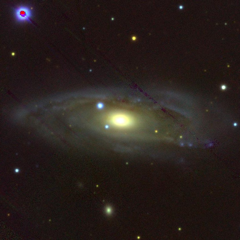 PanSTARRS image of NGC 3312.